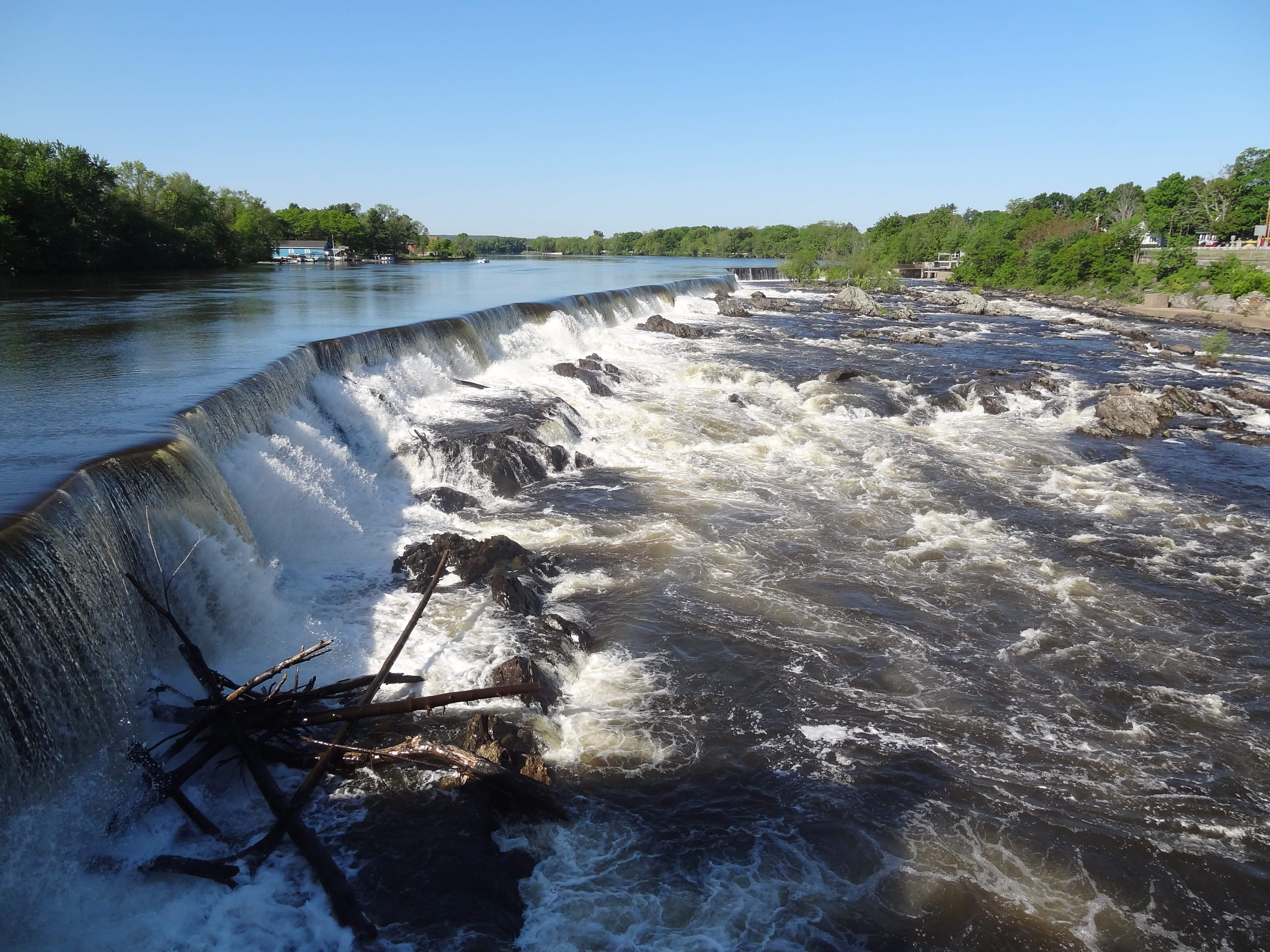 Pawtucket Falls viewed from the northeast side of the Pawtucket Gatehouse. Located near the southeast end of the O'Donnell Bridge in Lowell, Massachusetts.